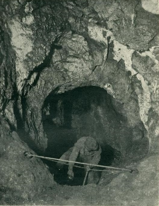 The Solymár Cave.